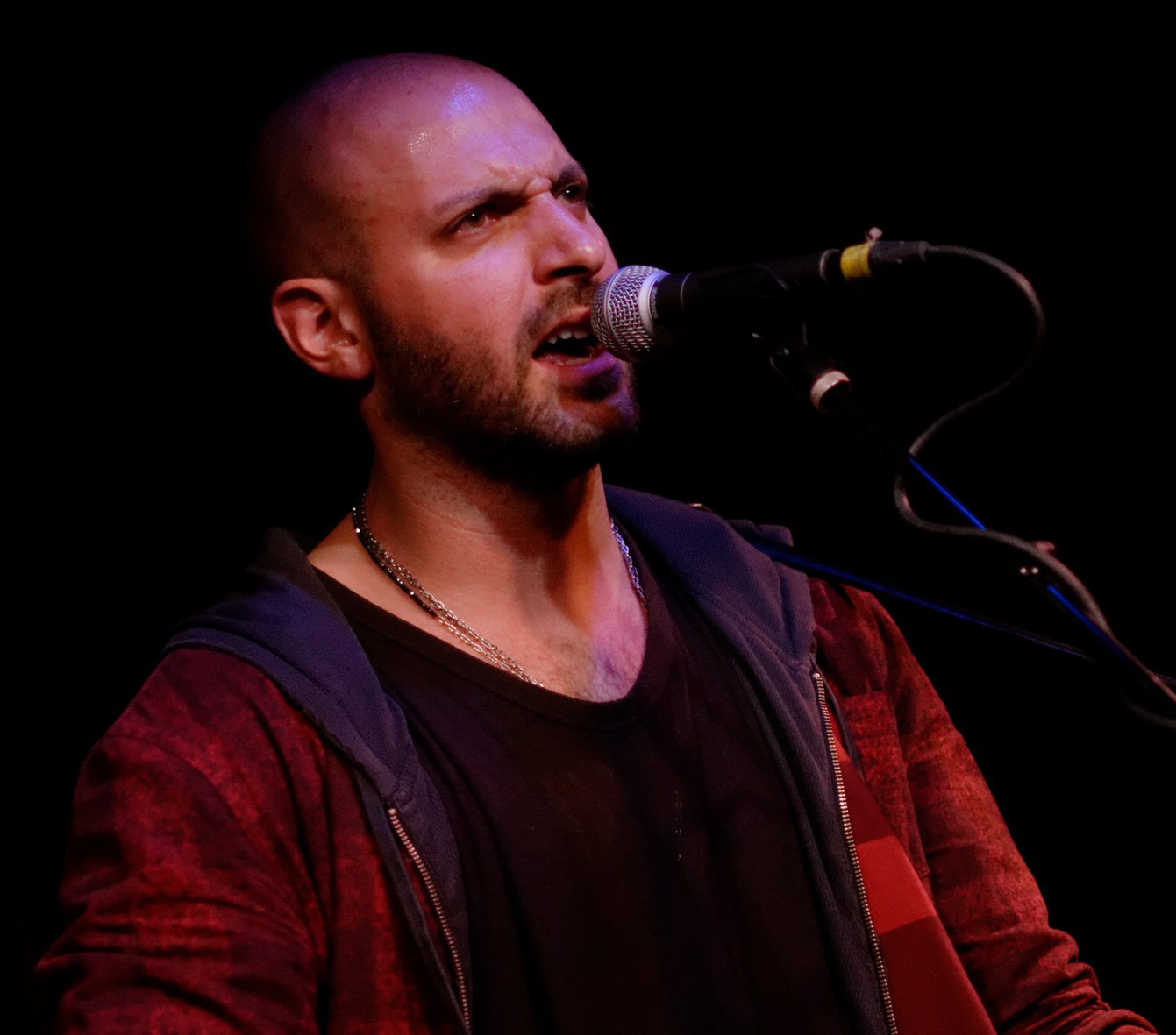 Ryan Star performing live at the Hotel Cafe in Los Angeles CA on November 8th, 2013